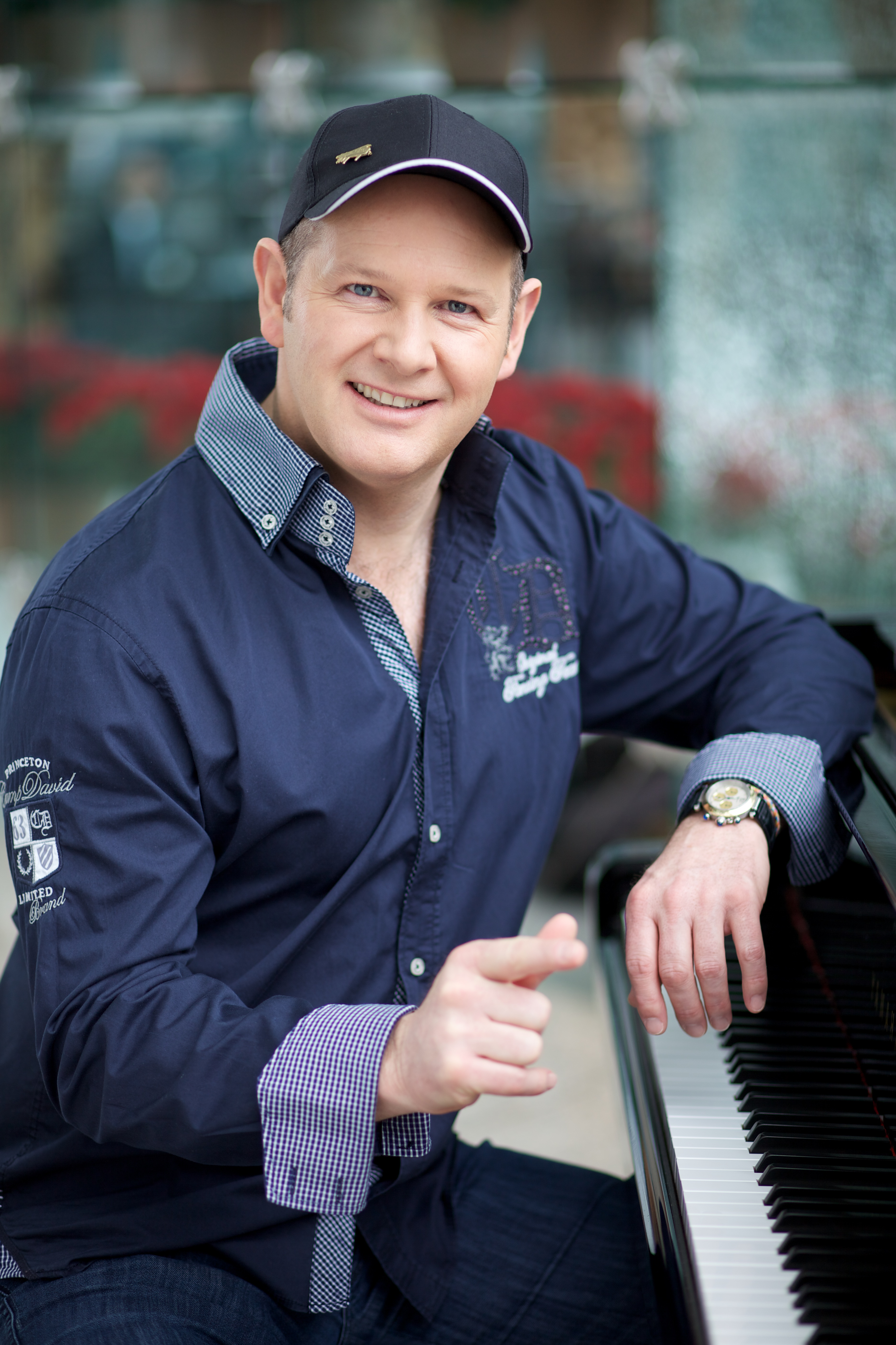 Charlie Glass on the Piano